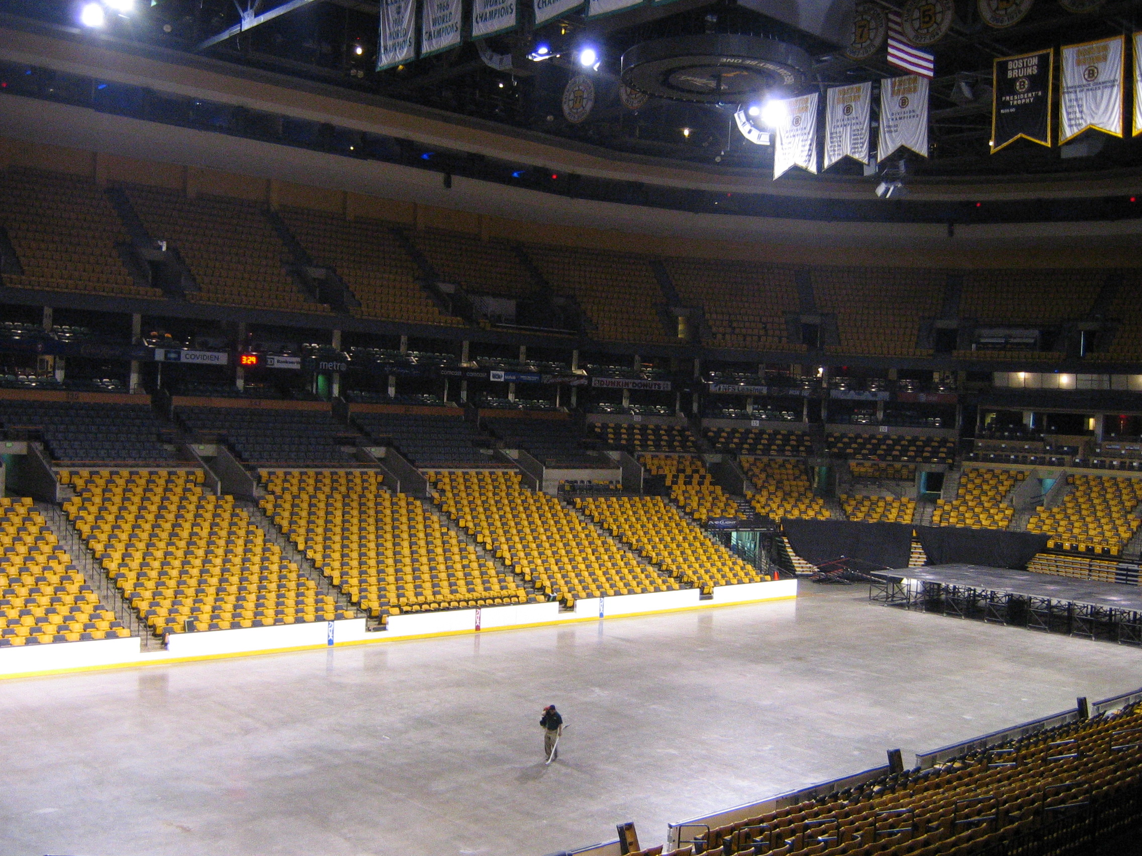 Football & Basketball Facilities Boston Arena